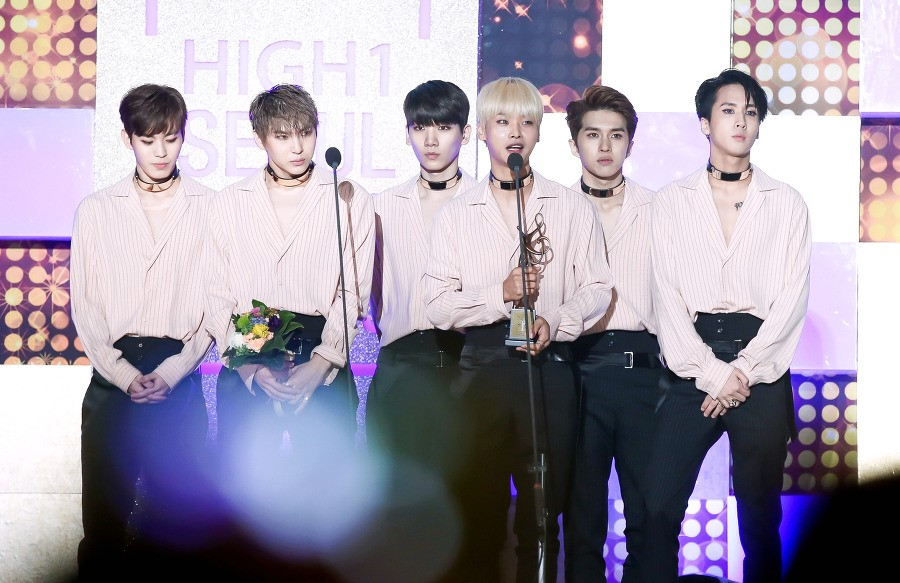 VIXX at 25th Seoul Music Awards, on January 14, 2016.